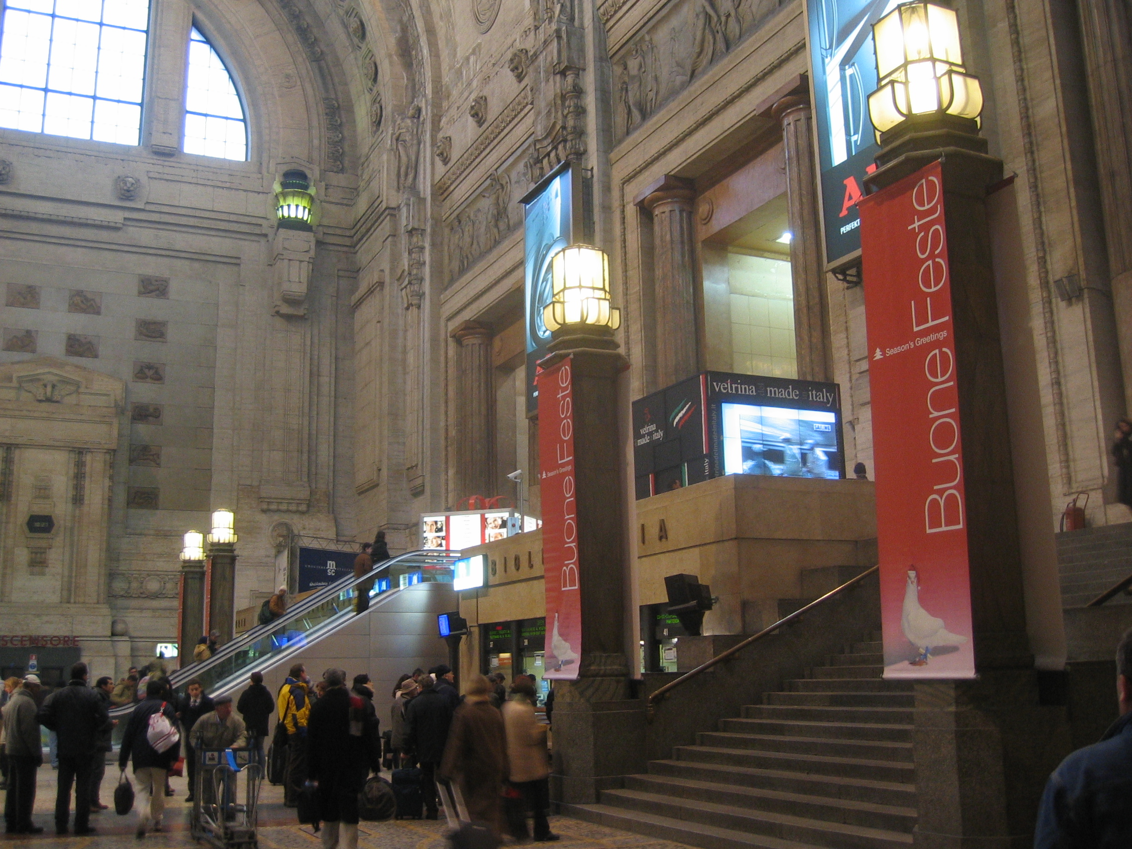 The main ticket hall of the Milan train station.